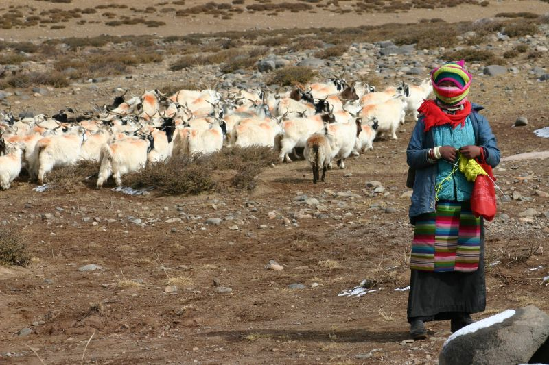 Shepherd girl, Tibet